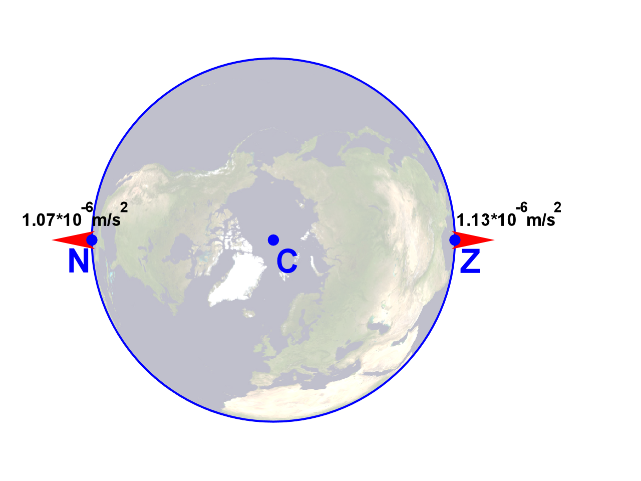 Differences of gravitational attraction of the moon in zenith (Z) and nadir (N) with centre of the earth (C) lead to resultant forces, directed away from the center of the Earth. The values of the acceleration (for mean distance of moon) are indicated